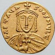 Artabasdos. AV solidus. Constantinople. G APTAUASDOS MULT, facing bust of Artabasdos, wearing crown and chlamys, and holding patriarchal cross.